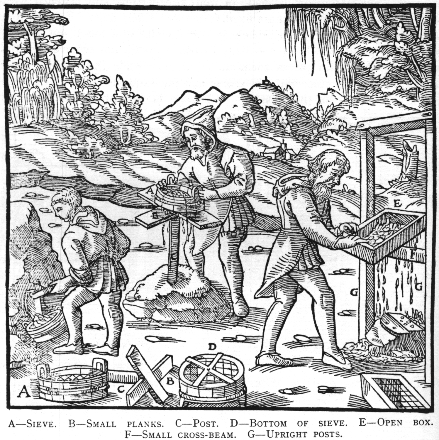 Woodcut illustration from De re metallica by Georgius Agricola. This is a 300dpi scan from the 1950 Dover edition of the 1913 Hoover translation of the 1556 reference. The Dover edition has slightly smaller size prints than the Hoover (which is a rare book). The woodcuts were recreated for the 1913 printing. Filenames (except for the title page) indicate the chapter (2, 3, 5, etc.) followed by the sequential number of the illustration.